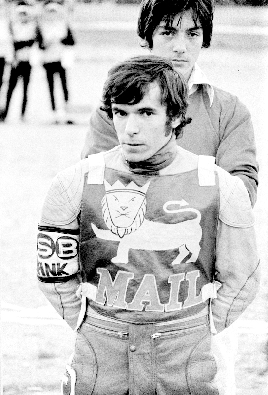 Dave Jessup, English speedway rider.